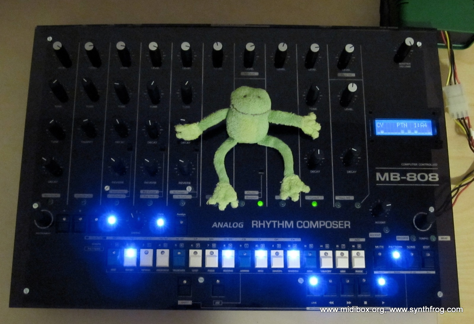 MIDIbox 808 (MB808 ) Analog Rhythm Composer based on MIDIbox SEQ V3